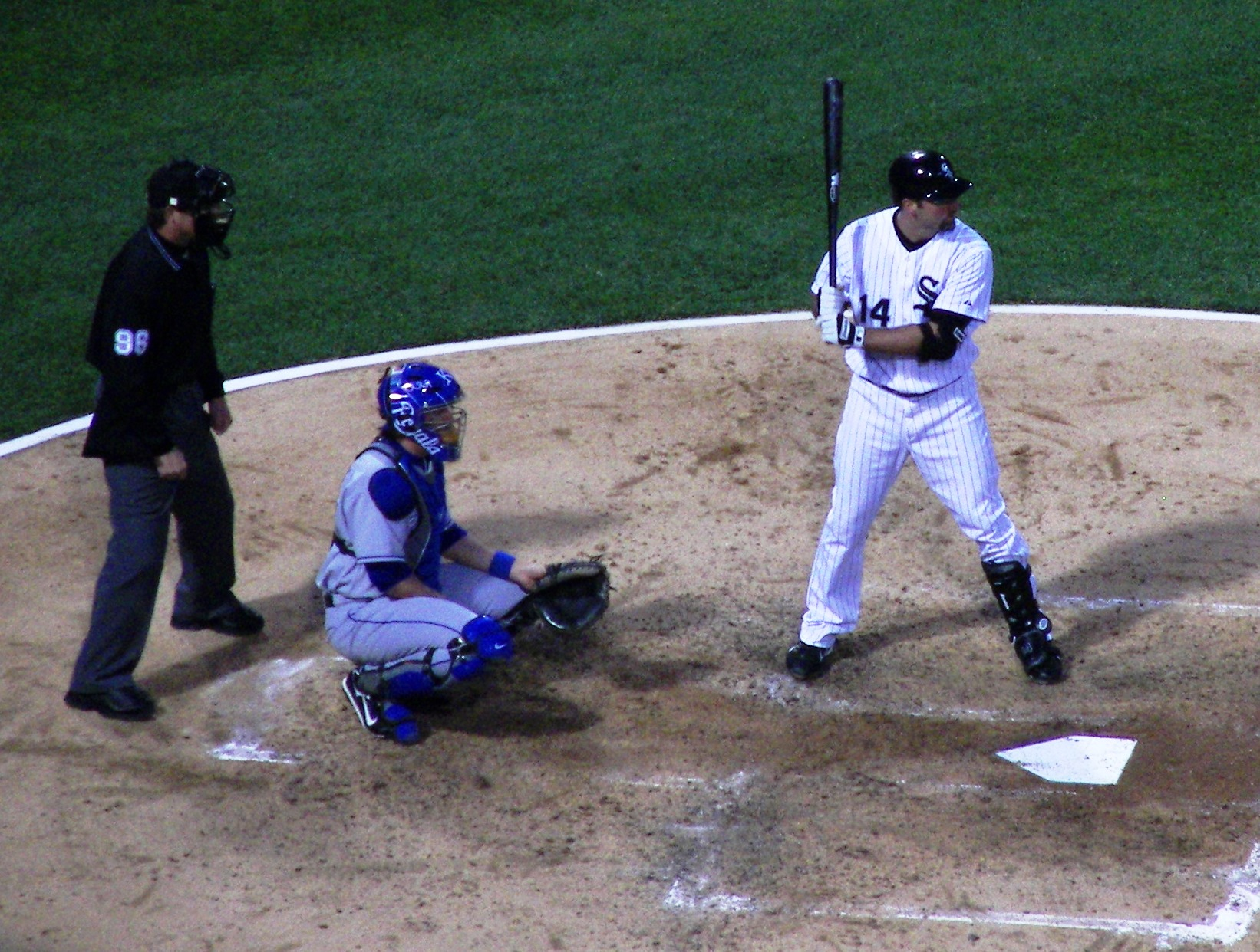 Chicago White Sox player Paul Konerko playing against the Kansas City Royals at US Cellular Field.